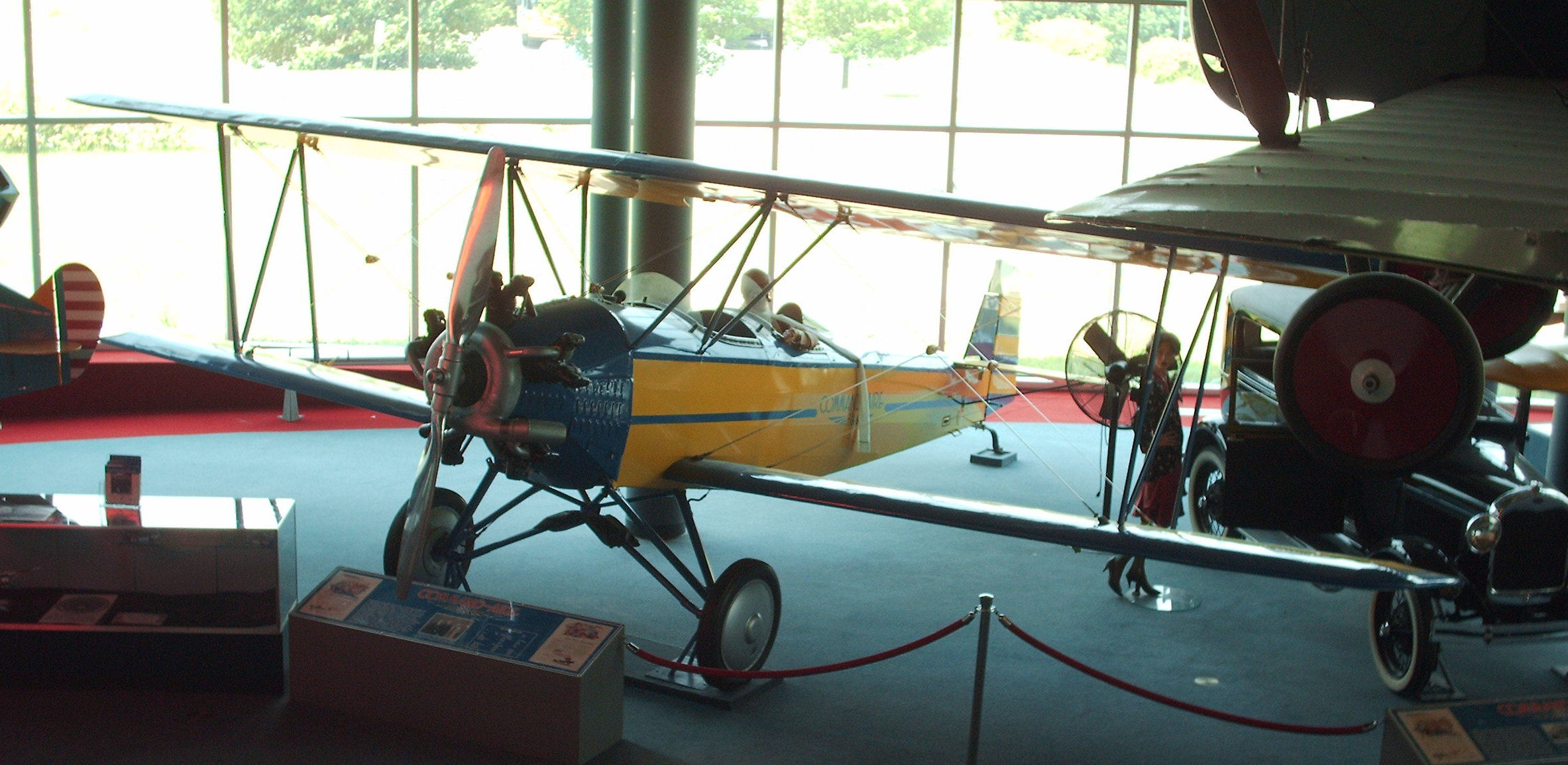 Command-Aire 5C3 NC925E in the now defunct Aerospace Education Center in Little Rock AK, MDF 5126